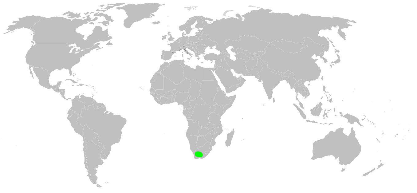 Known world distribution of Latrodectus karooensis (Theridiidae), after The button spiders of southern Africa by Ansie Dippenaar-Schoeman.